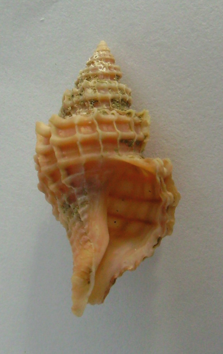 Zeatrophon ambiguus (Philippi, 1844) (synonym: Xymene ambiguus) (large trophon, base view) (female) dredged from Northland east coast, New Zealand. This work has been released into the public domain by its author, Graham Bould. This applies worldwide.In some countries this may not be legally possible; if so:Graham Bould grants anyone the right to use this work for any purpose, without any conditions, unless such conditions are required by law.